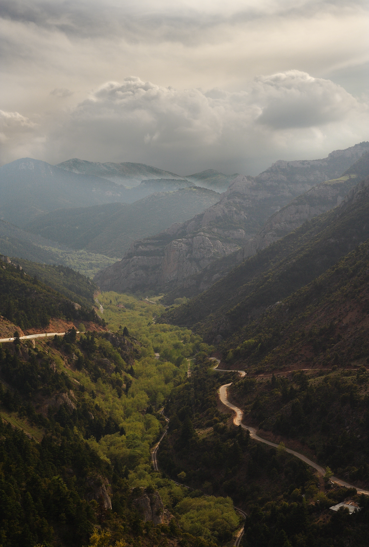 In altitudes conifers, otherwise evergreen shrubs, except where all-season creek allows fresh deciduous trees. Bottom of gorge: Track for rack train (operating since 1885).